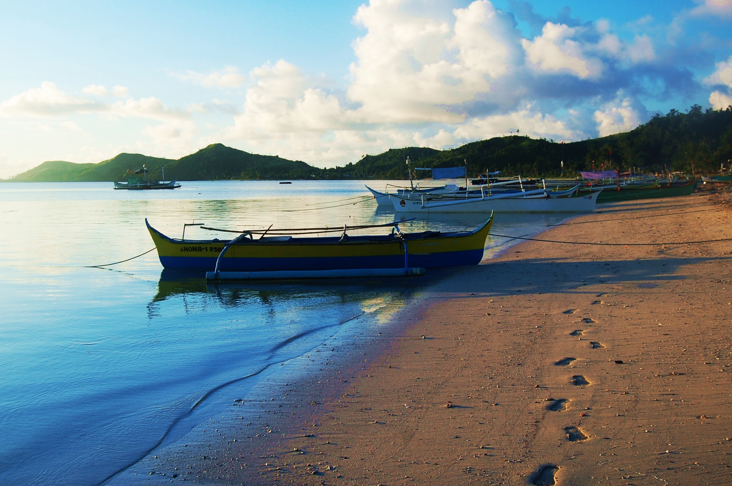 Sand turns golden under the scorching heat of the sun.